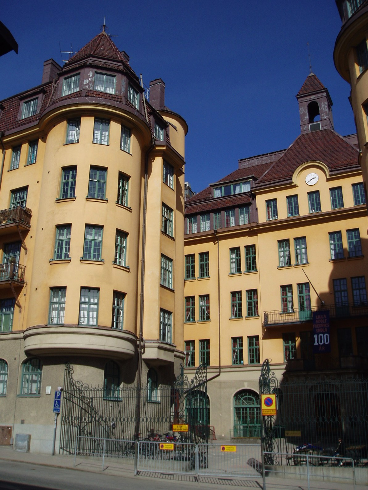 Lilla Adolf Fredriks skola, school in Stockholm